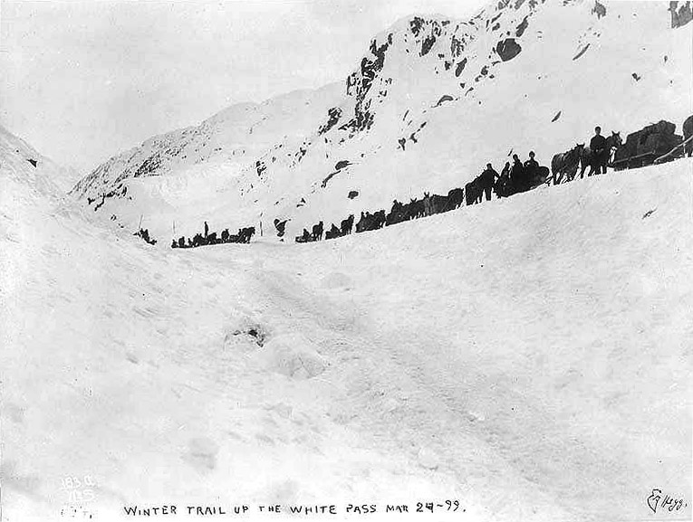 Prospector along the White Pass trail to Klondike, March, 1899